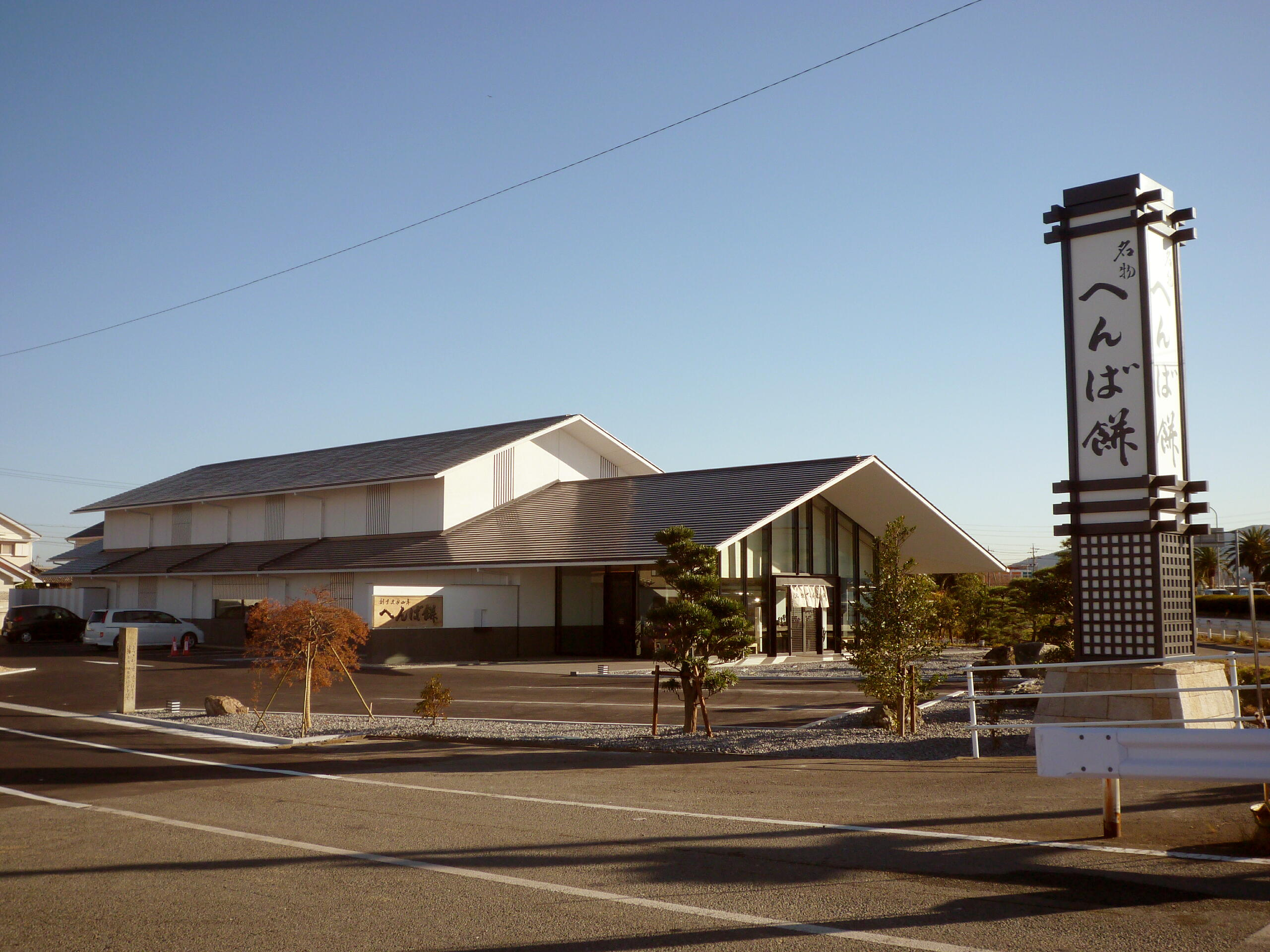 The "Henbaya Shōten Miyagawa-ten" in Nishi-Toyohama-chō, Ise, Mie, Japan.It is Wagashi "Henba-mochi" shop.